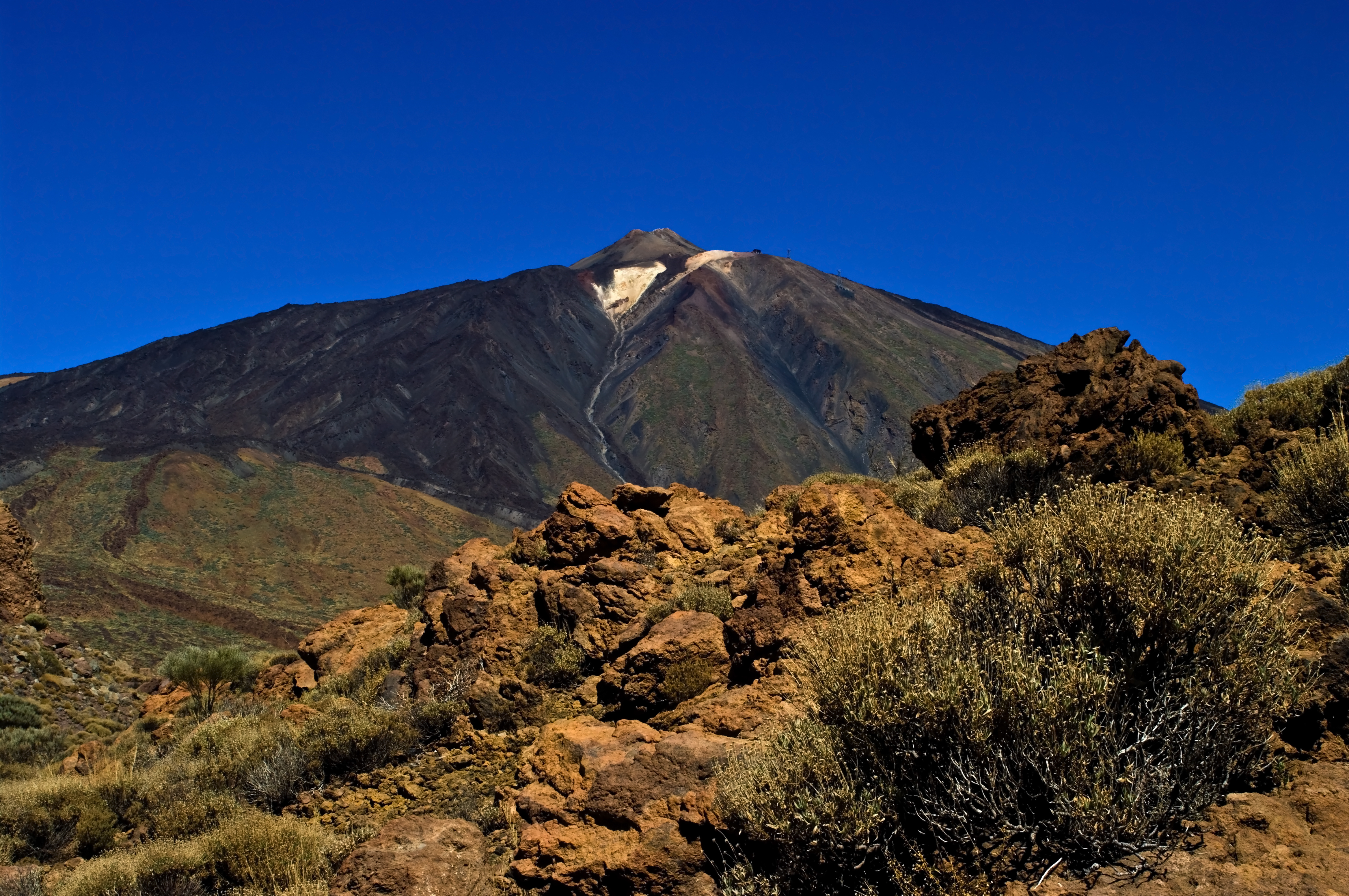 Mount Teide (Spanish: Pico del Teide) - a volcano on Tenerife in the Canary Islands